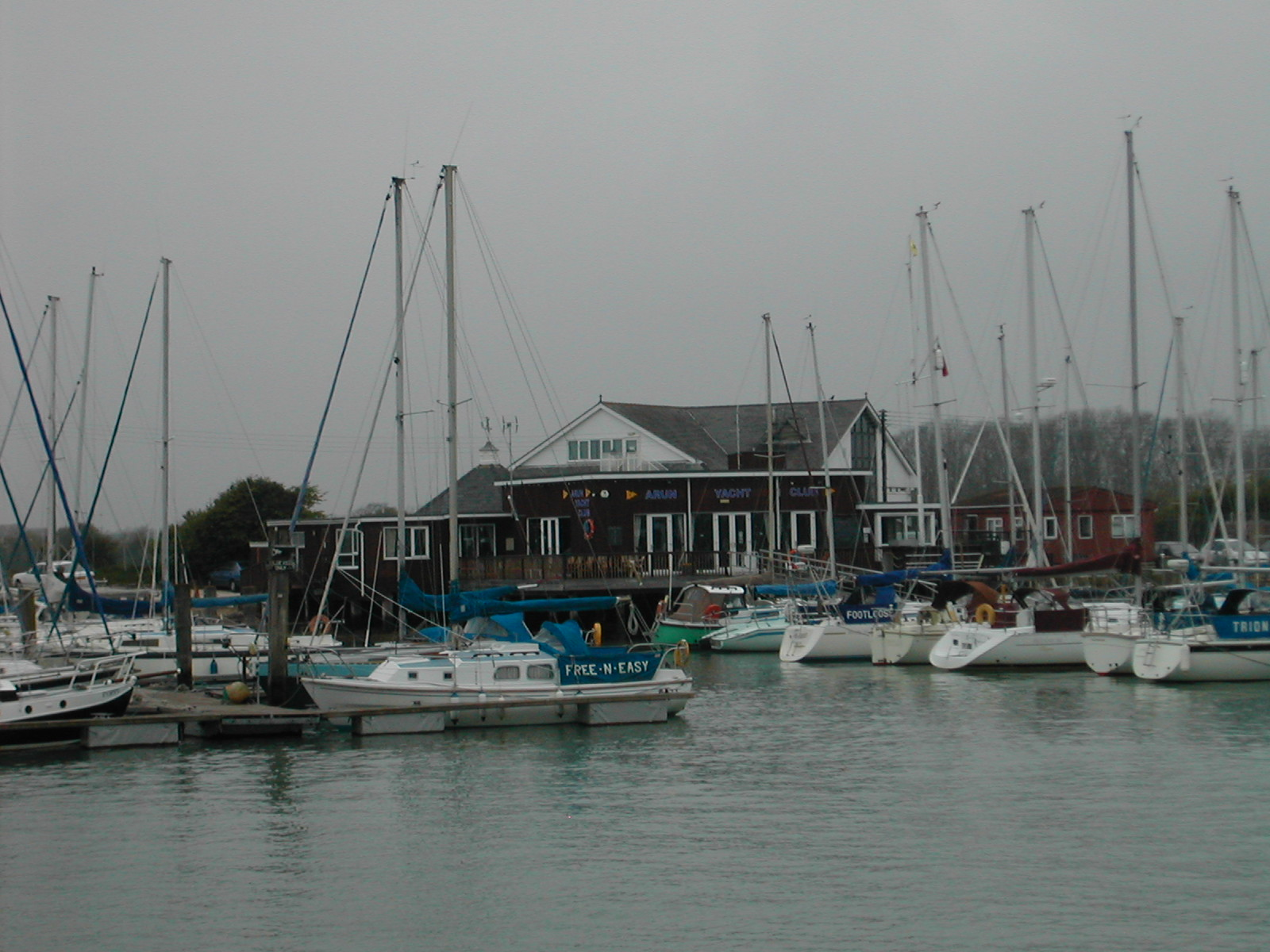 A photo of the building for the Arun Yacht Club.